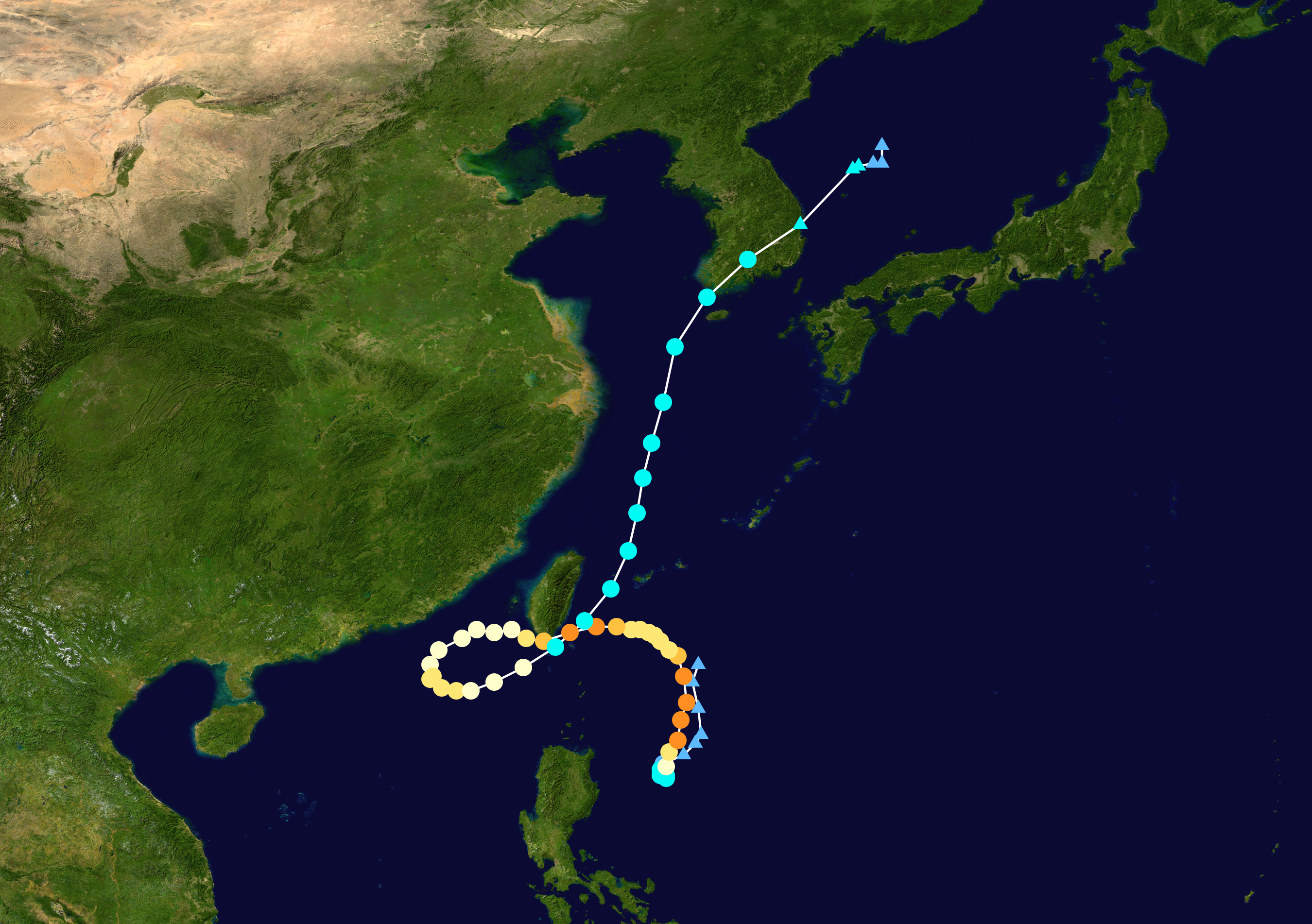 Track map of Typhoon Tembin of the 2012 Pacific typhoon season. The points show the location of the storm at 6-hour intervals. The colour represents the storm's maximum sustained wind speeds as classified in the Saffir–Simpson scale (see below), and the shape of the data points represent the nature of the storm, according to the legend below. Saffir–Simpson scale Tropical depression≤38 mph≤62 km/h Category 3111–129 mph178–208 km/h Tropical storm39–73 mph63–118 km/h Category 4130–156 mph209–251 km/h Category 174–95 mph119–153 km/h Category 5≥157 mph≥252 km/h Category 296–110 mph154–177 km/h Unknown Storm type Tropical cyclone Subtropical cyclone Extratropical cyclone / Remnant low / Tropical disturbance / Monsoon depression